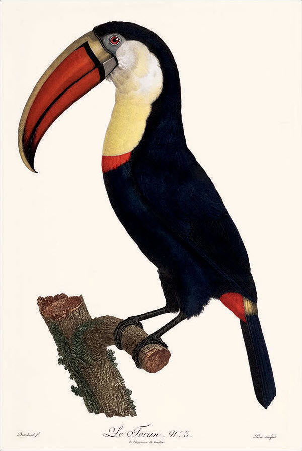 Le Tocan (Toucan), by Jacques Barraband, from a natural history text by François Levaillant (original illustration in watercolor)